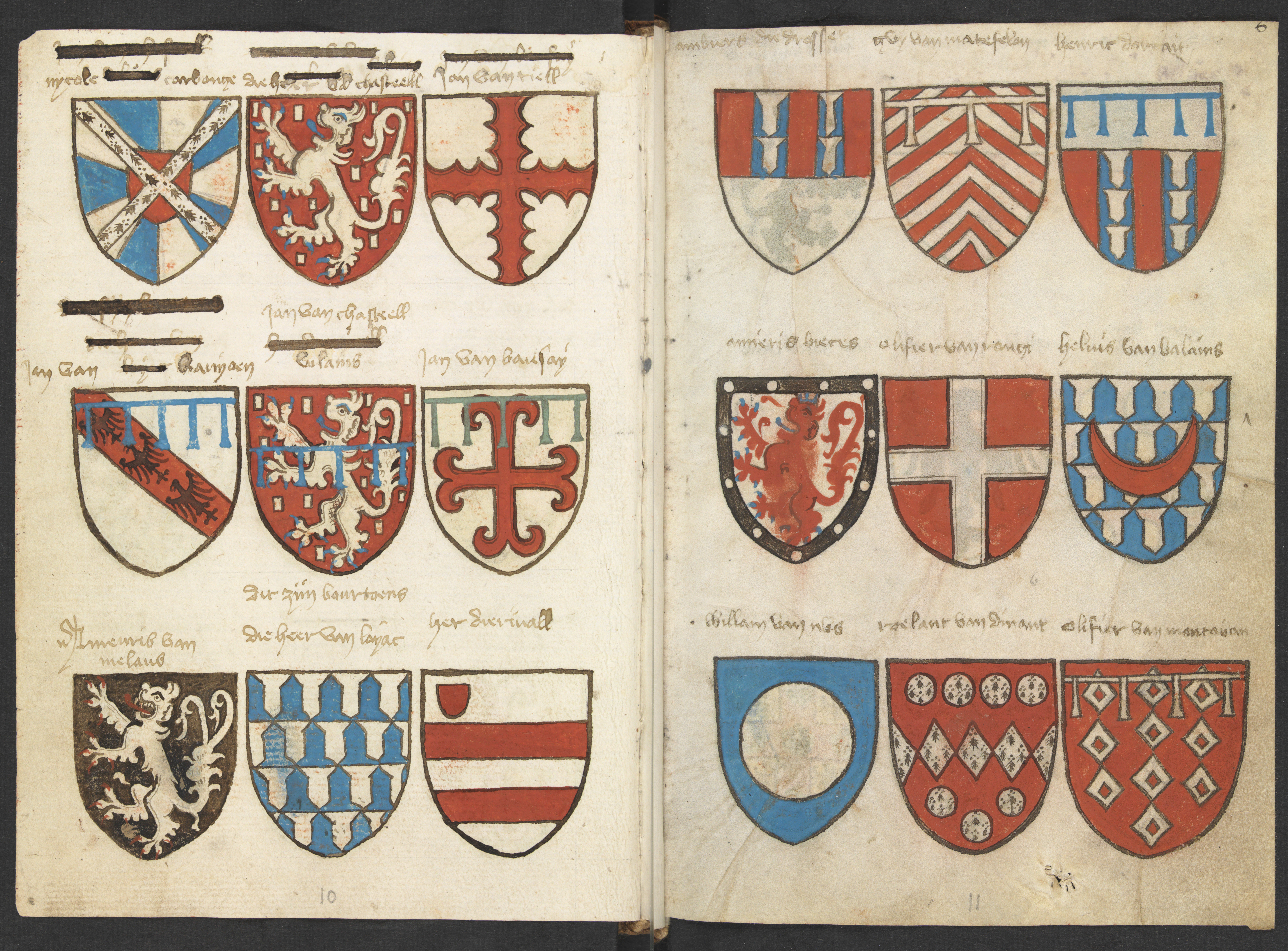 Lefthand side folio 005v; righthand side folio 006r from the Beyeren armorial / Wapenboek Beyeren